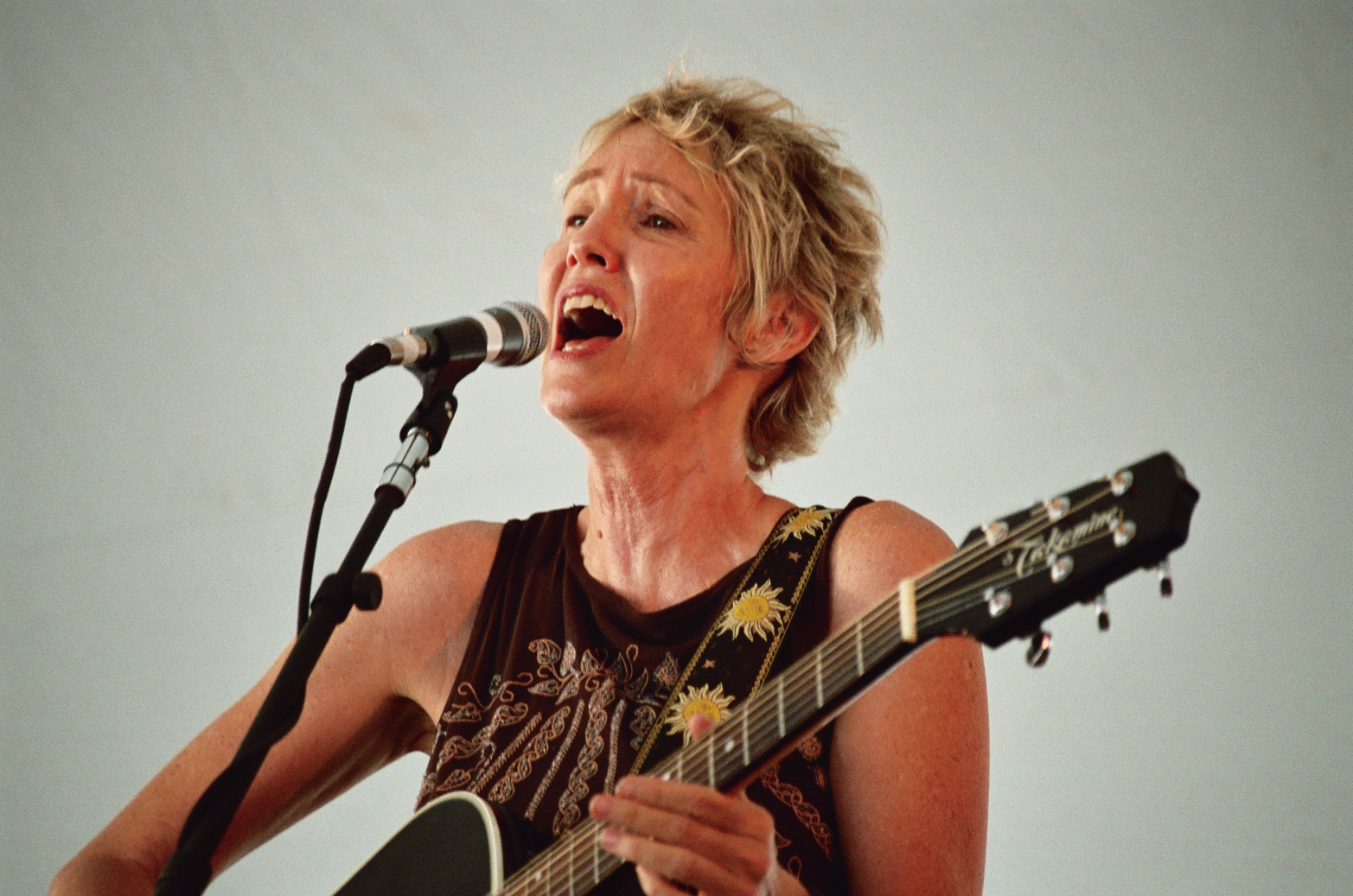 Eliza Gilkyson on the Custom House StageEliza Gilkyson